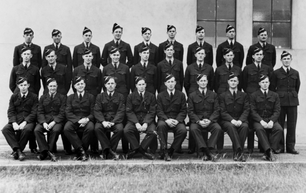 Australia: Victoria, Melbourne, Essendon. Group portrait of RAAF officers attending No 3 Elementary Flying Training School (EFTS). Identified from left to right, back row: 403993 Donald Hamilton Thompson; four unidentified; 409252 Bruce Alexander Tait (who was killed in action on 29 December 1943 when the Landcaster Bomber he was piloting crashed at Grossziehten, near Berlin); unidentified; Bill Young; Evans. Second row: 9245 Sydney James (Jim) Commons; 407932 John Hereford Portus (who received the Distinguished Flying Cross (DFC) on 18 January 1944); 409257 Robert Bruce Tuff (who was killed in action on 22 February 1944 over the English Channel); unidentified; Ryan; 408932 John Lorne Seelenmeyer; four unidentified. Front row: Oldmeadow; 400438 William Dougal McBean; 408891 Norman Albert Augustus Smithells (served as Norman Albert Turnbull); unidentified; 409249 Freeman Rolland George Strickland; 409218 Ronald Ormond Patterson; 409223 Sergeant Douglas Robert Ramsay (accidentally killed in Hamilton, Vic on 8 January 1943); two unidentified.